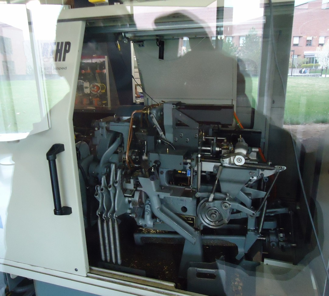 Surface grinding machine in the Brinkman Machine Tools and Manufacturing Laboratory (09-2410) in the Gleason Building (09) at the Rochester Institute of Technology